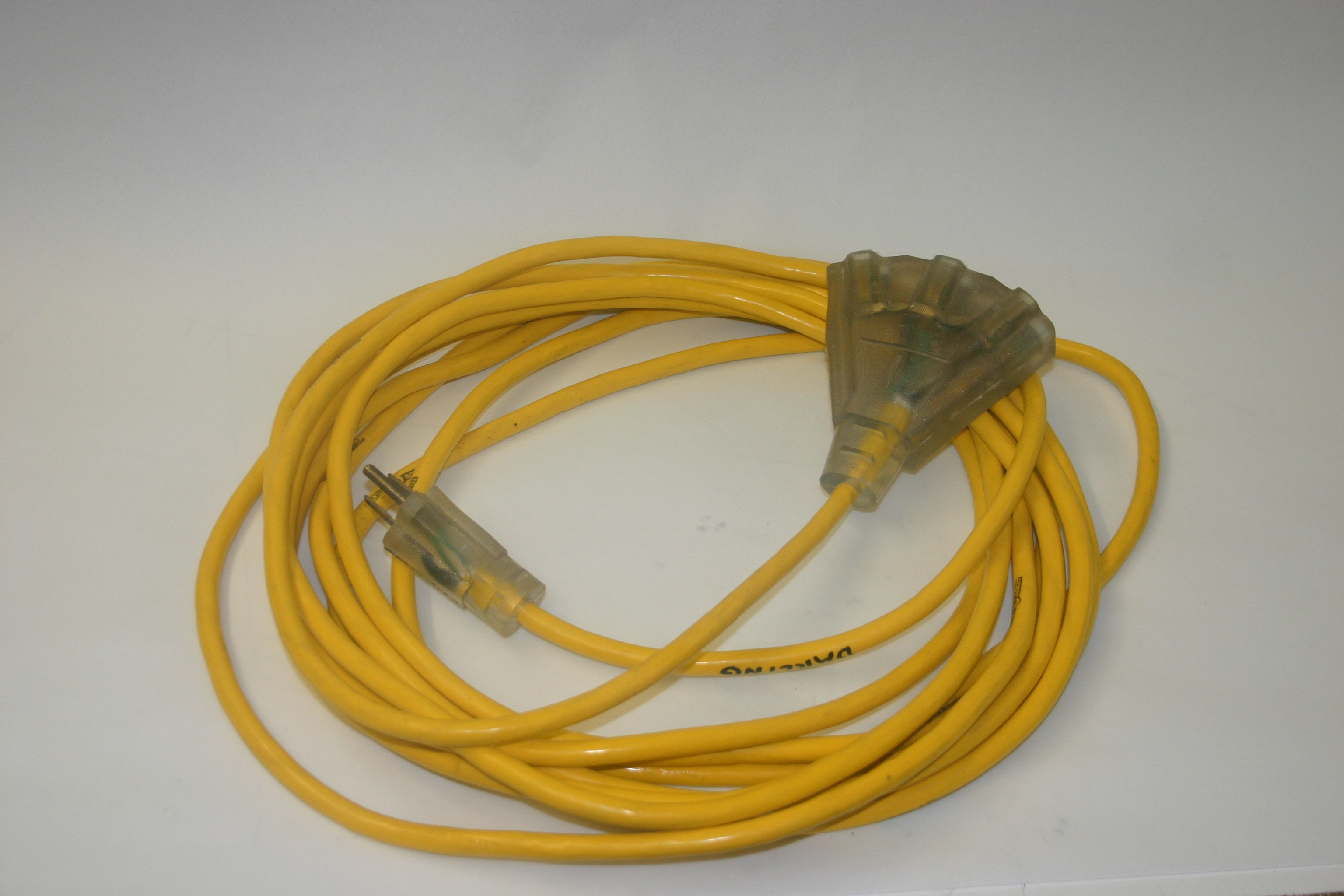 Yellow Extension Cord with NEMA 5-15 plug and three NEMA 5-15 receptacles.